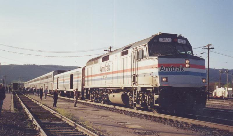 Amtrak's Pioneer stops at the La Grande, Oregon, on its way east. I took this photo on the second-to-the-last eastbound run of the train in May 1997.